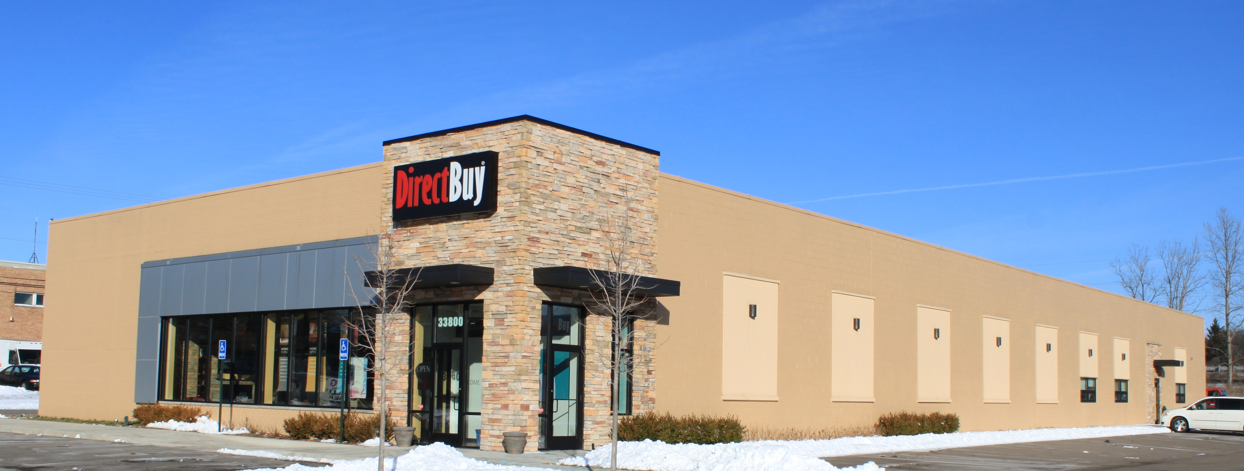 DirectBuy showroom, 33800 West Nine Mile Road, Farmington, Michigan.